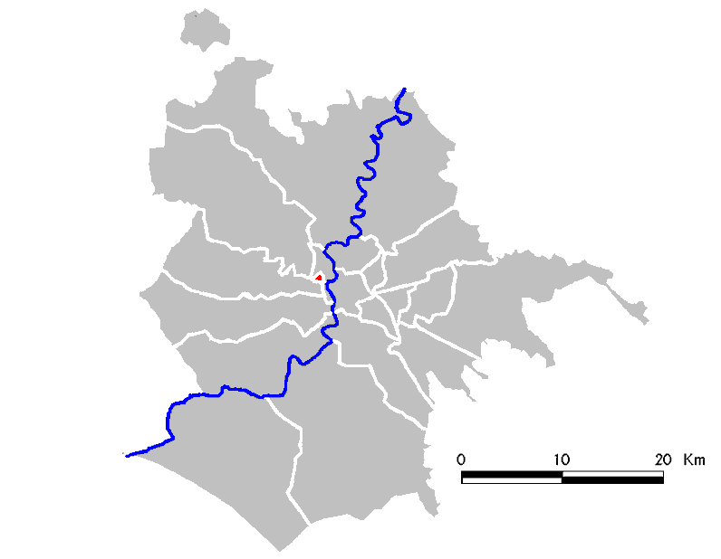 Locator maps of Rome